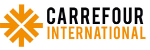 Logo de Carrefour International